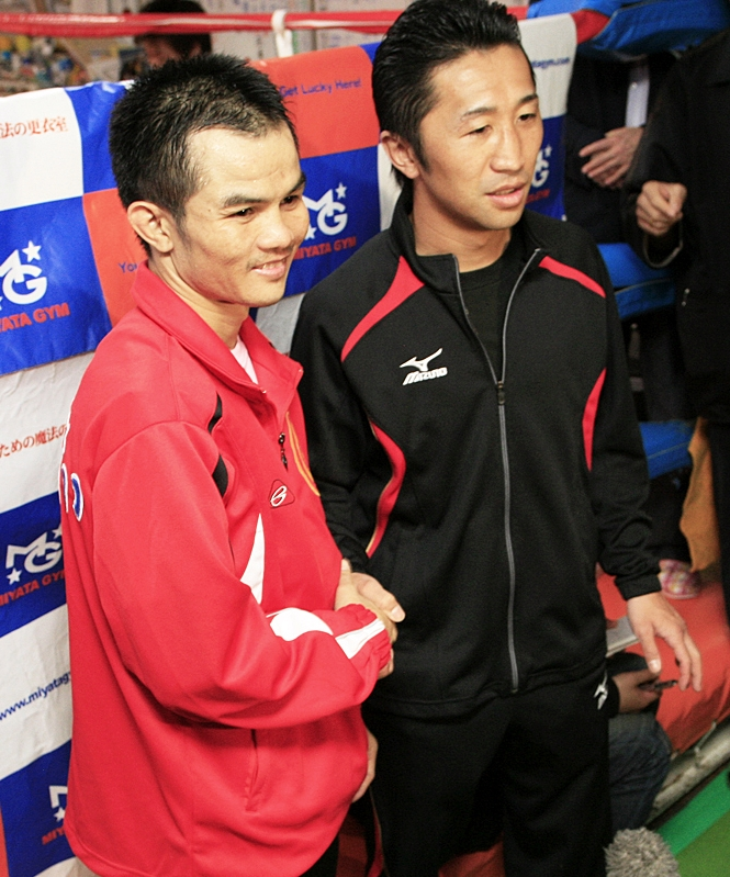 Pongsaklek Wonjongkam (on the left) and Daisuke Naitō in Tokyo, Japan in March 2010.